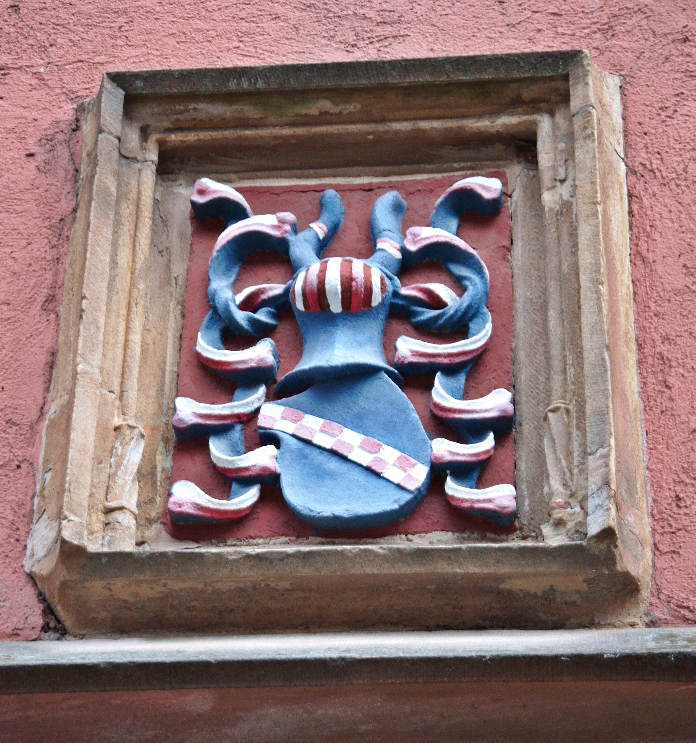 Deidesheim Spital coat of arms of the founder knight Nikolaus Übelhirn von Böhl